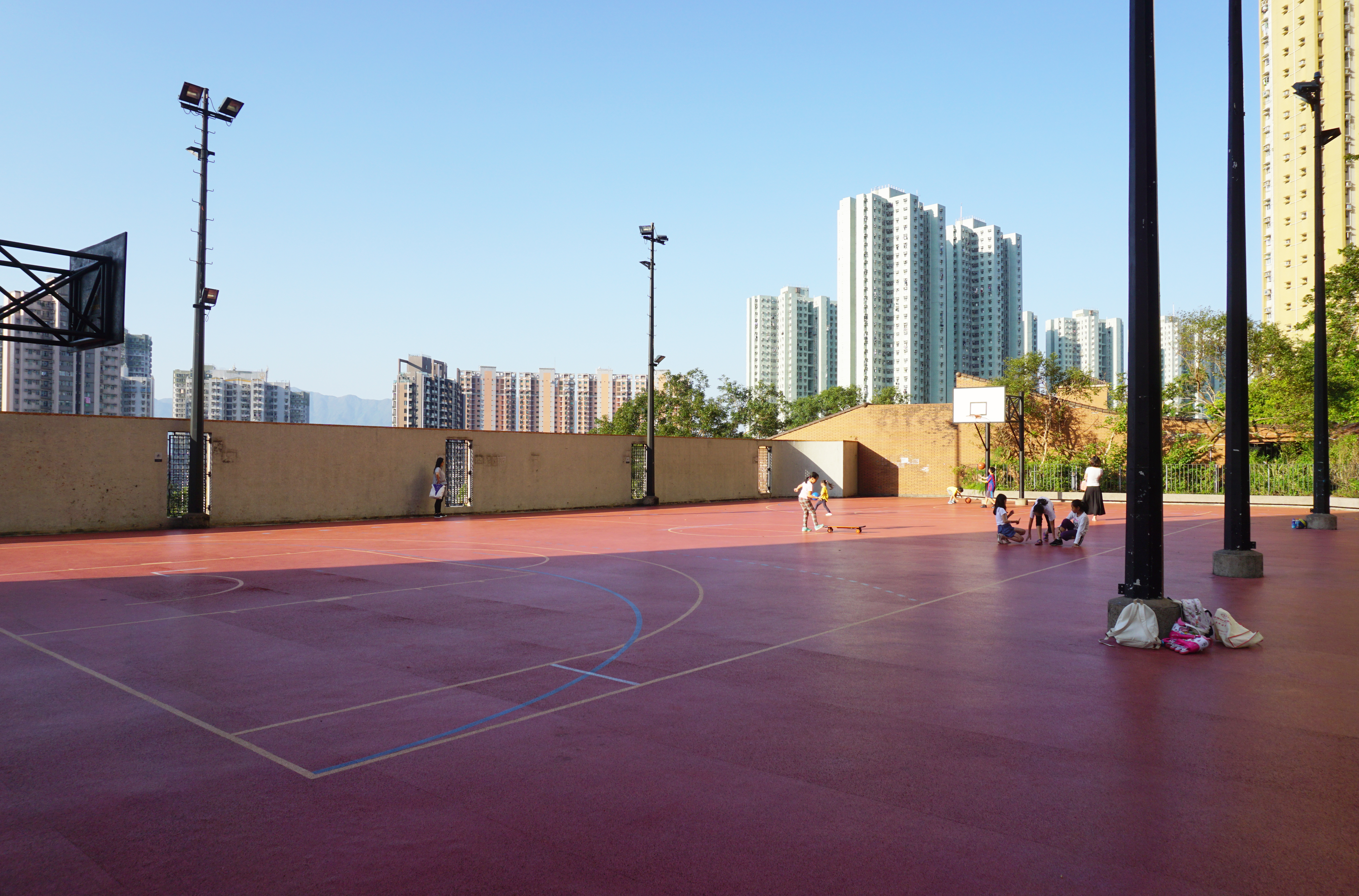 Kam Ying Court in Ma On Shan, Hong Kong.